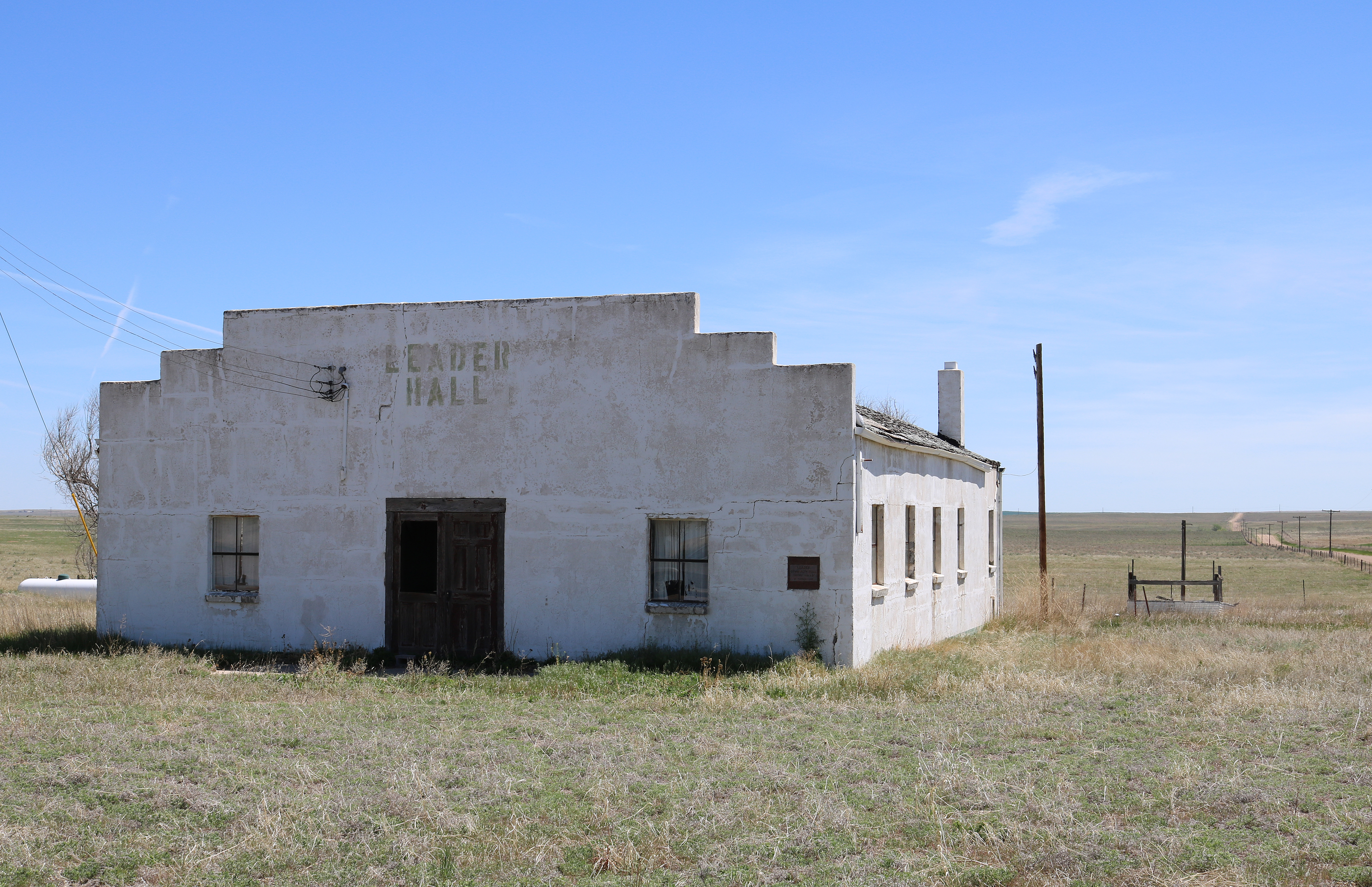 The Leader, Colorado community hall, located near the intersection of 112th Avenue (visible on the right side of the picture) and Mimosa Road. Leader is in Adams County, Colorado.